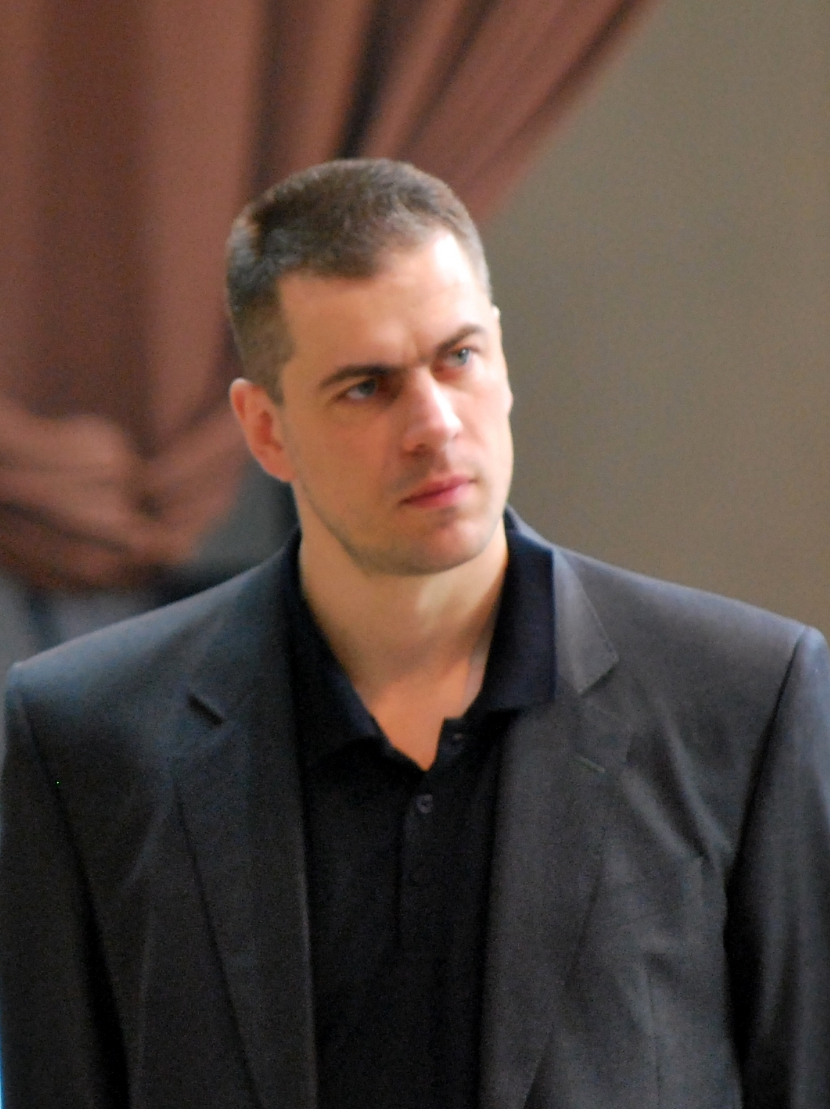 Damian Dacewicz, polish volleyball coach, former player